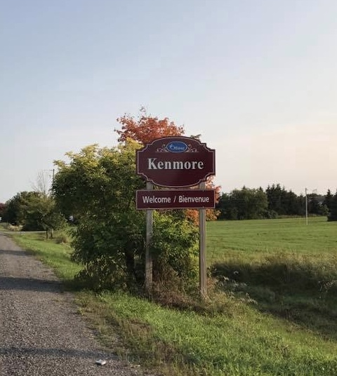 Sign at Entrance to Kenmore, Ontario